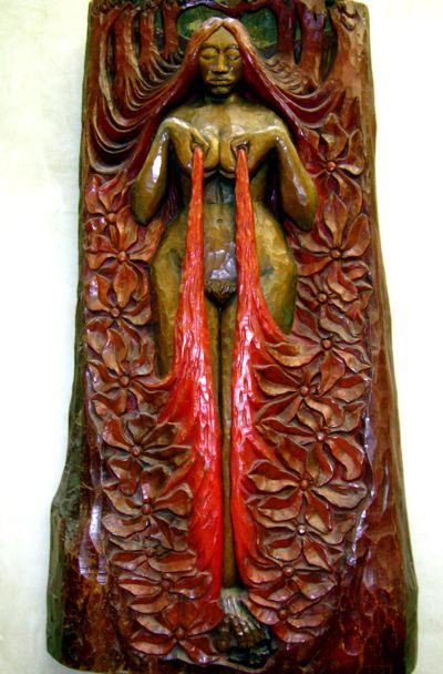 Isis 1895